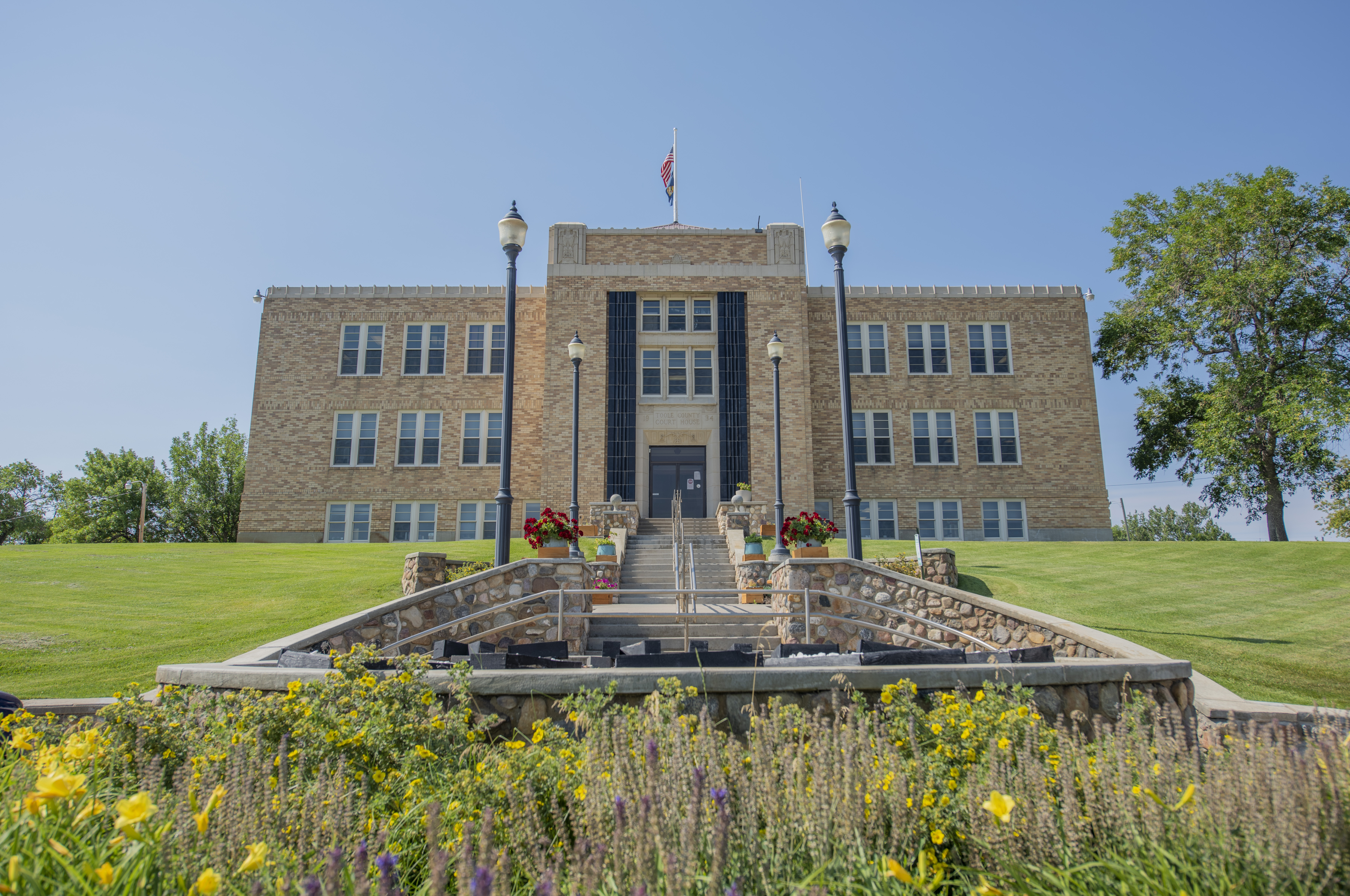 Photograph of the Toole County Courthouse in Shelby, Montana. Image taken in July 2020.